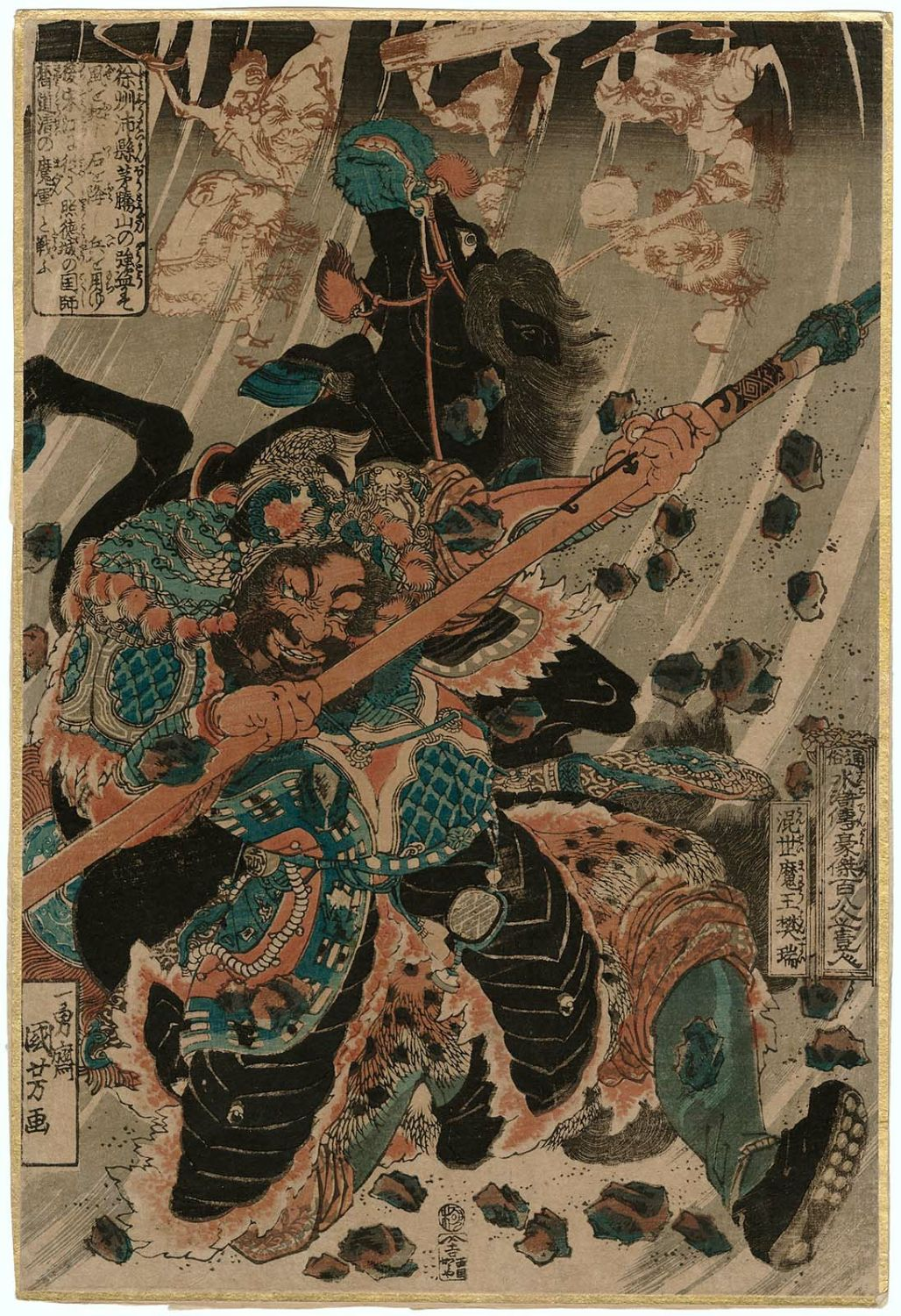 Fan Rui (樊瑞) invoking demons, stones and a storm by sorcery.